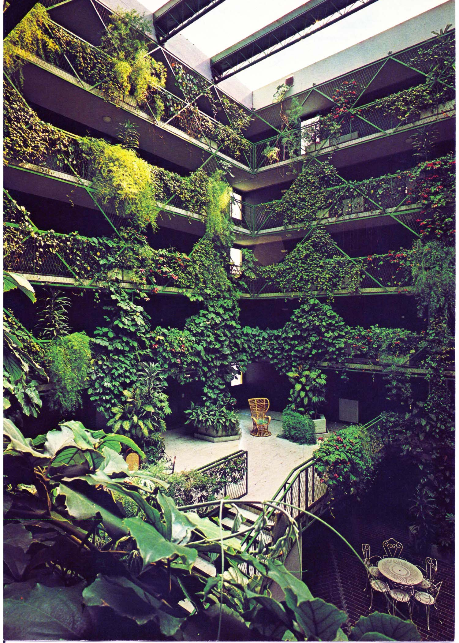 Mur végétal et terrasse